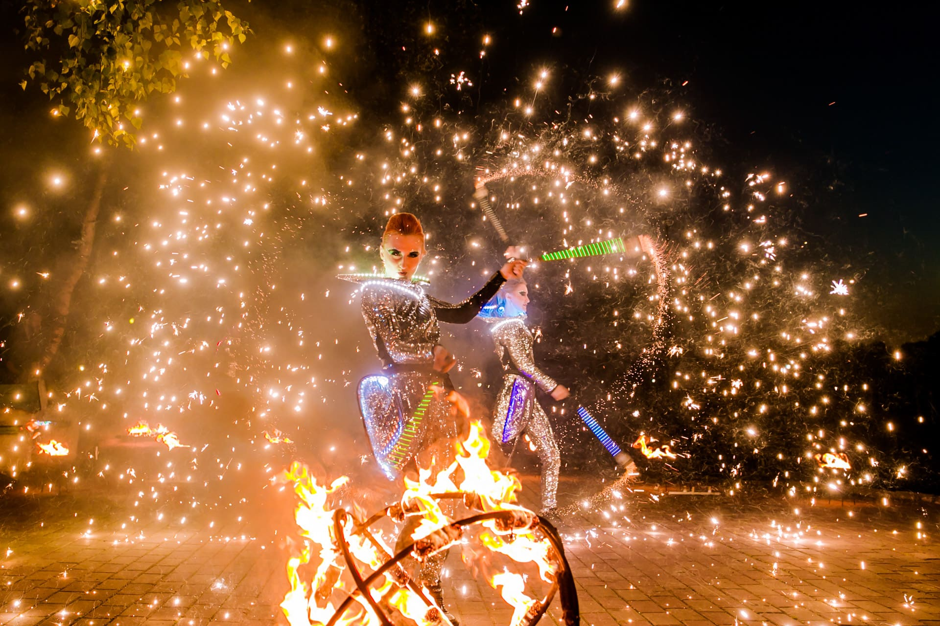 Shot from a fireshow called SilverFire from a fire and light show Pulsar, Russia Moscow